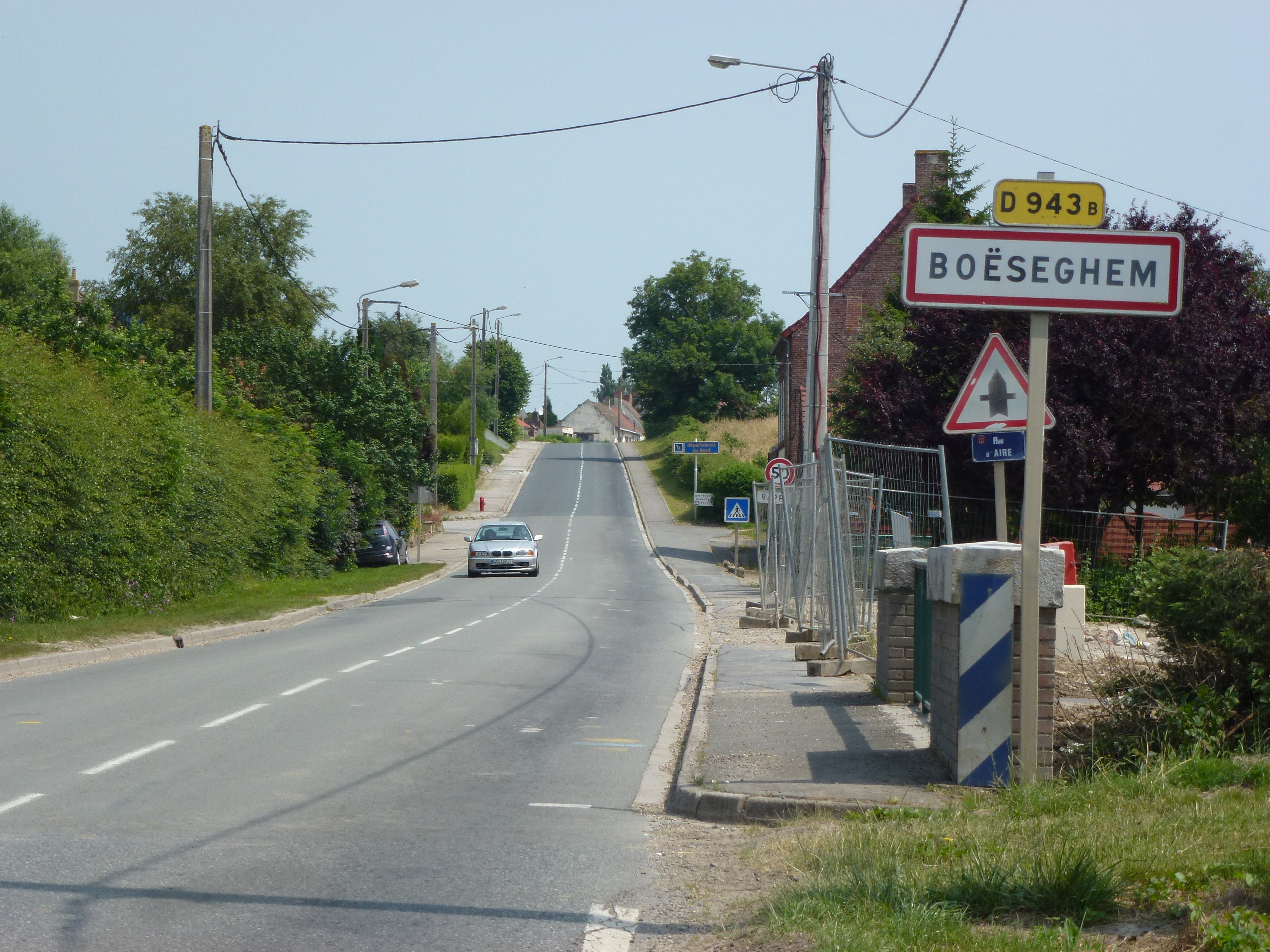 Boëseghem (Nord, Fr) city limit sign